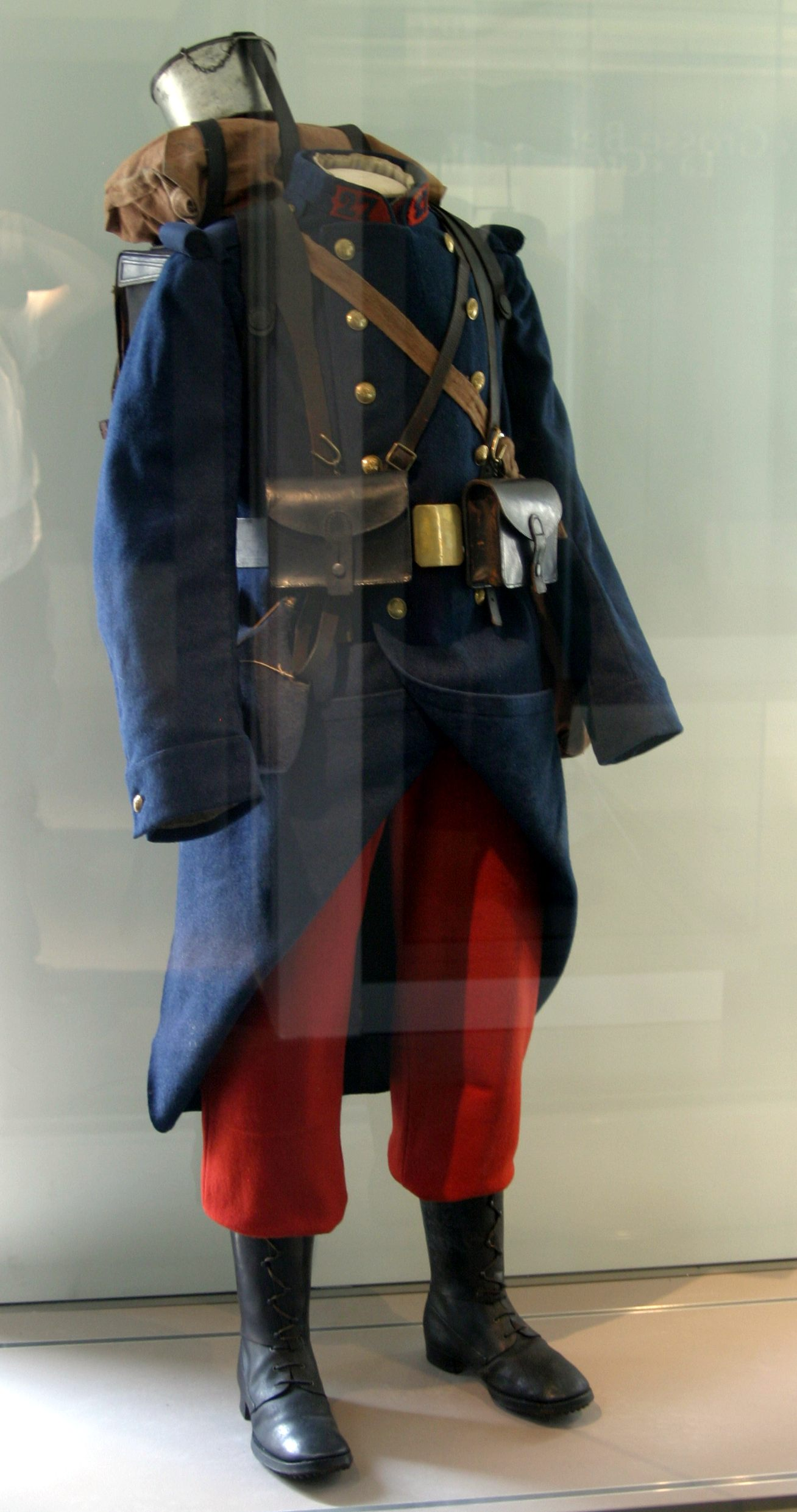 This image was taken at the Musée de l'Armée, Paris.